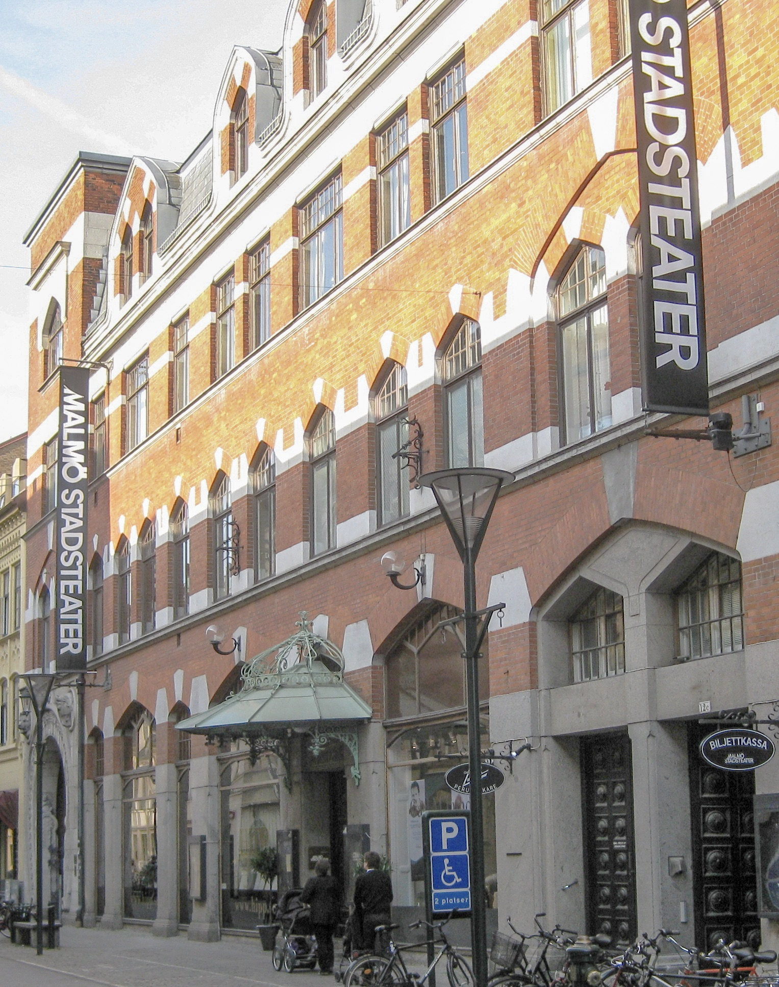 Hippodromen with Malmö Theatre in Malmö, Sweden